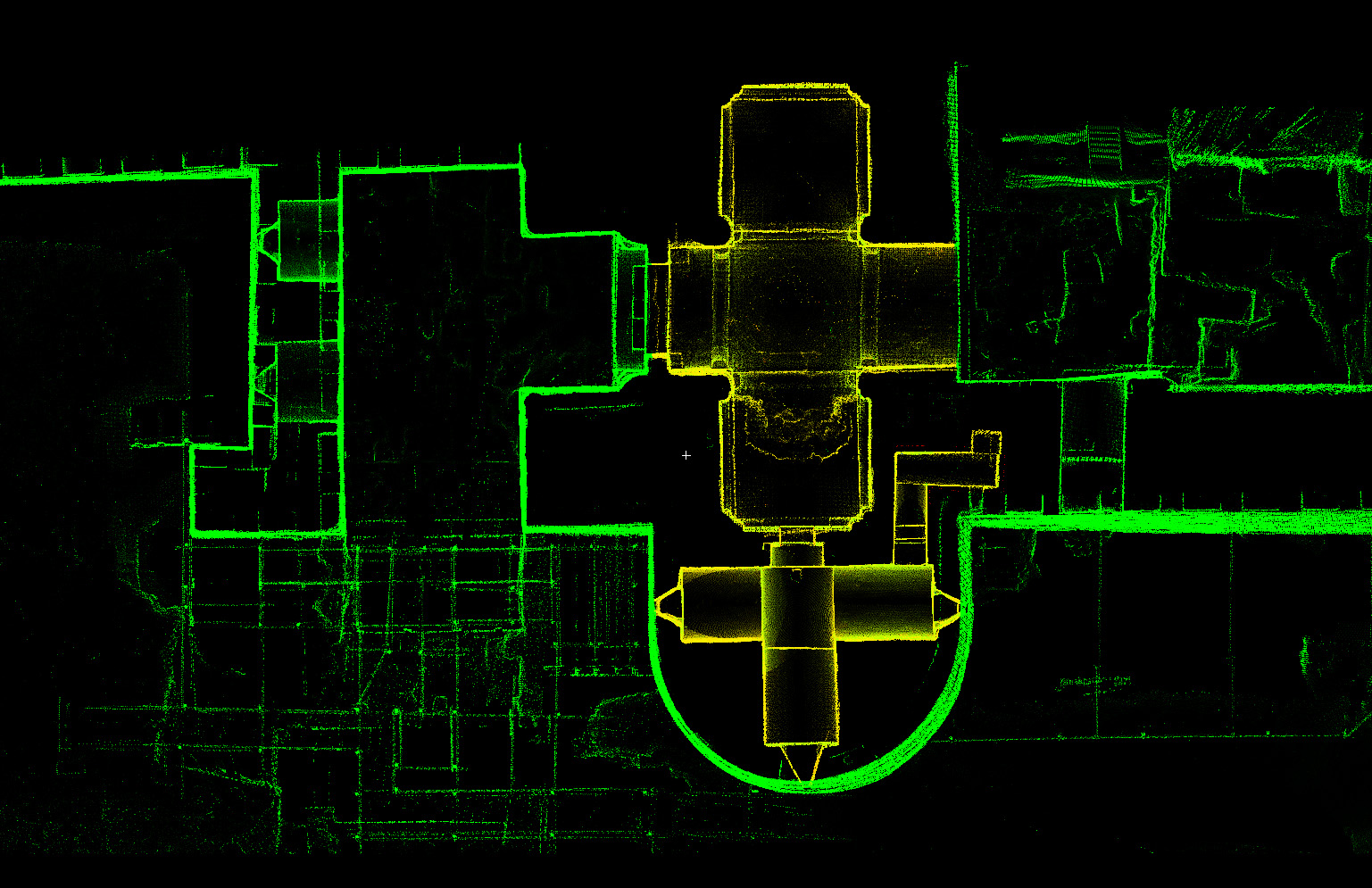 Located close to one of Cairo's main modern traffic arteries, al-Azhar Street, the Bab al-Barqiyya is a fortified gate of unusual design; it was constructed with interlocking volumes that surrounded the entrant in such a way as to provide greater security and control than typical city wall gates. This gate was one of several design innovations imported from Syria and speaks to the ingenuity of the Ayyubid military engineers of that time.